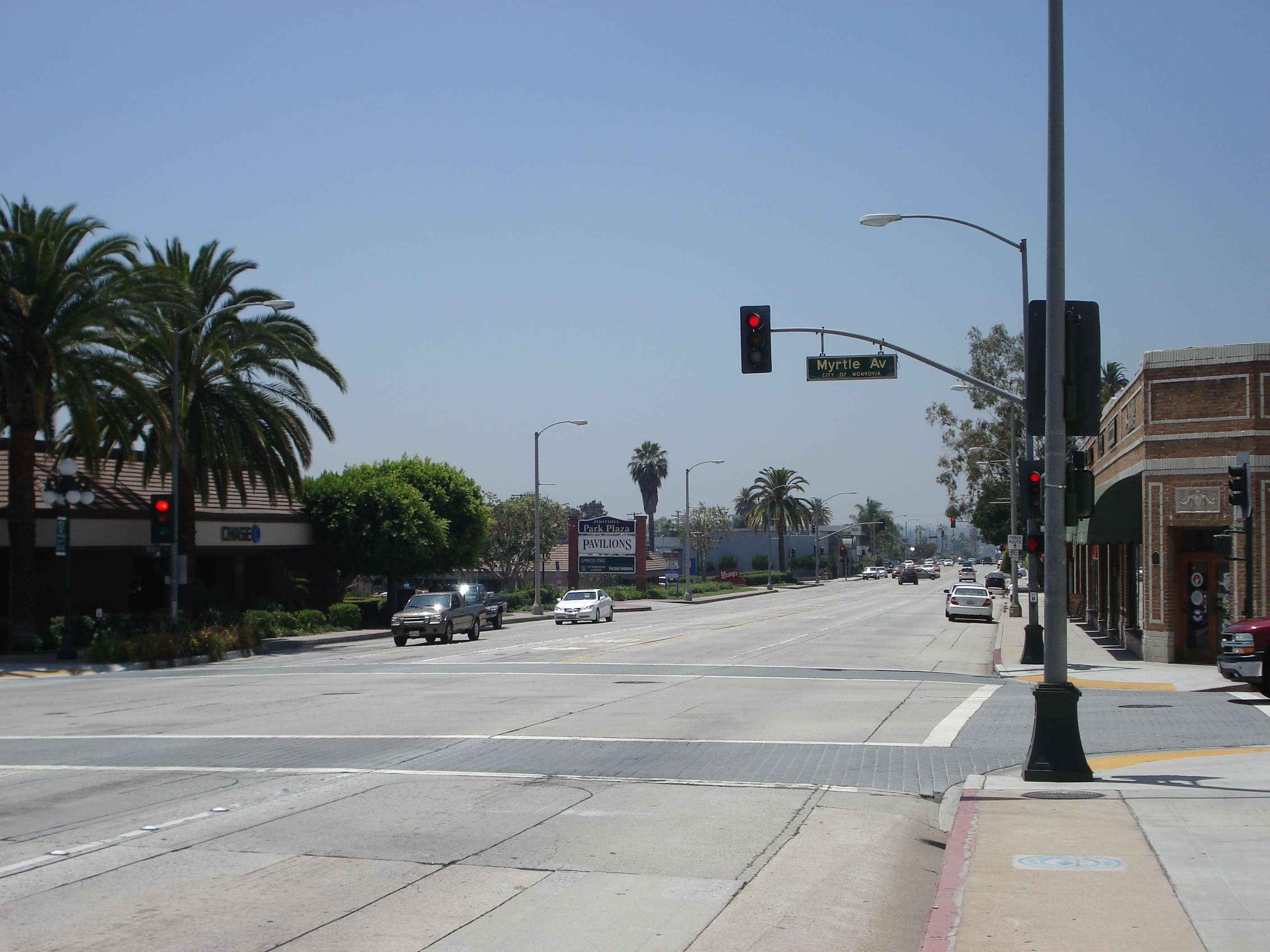 Foothill blvd in Monrovia